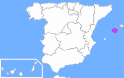 Locator map of Mallorca